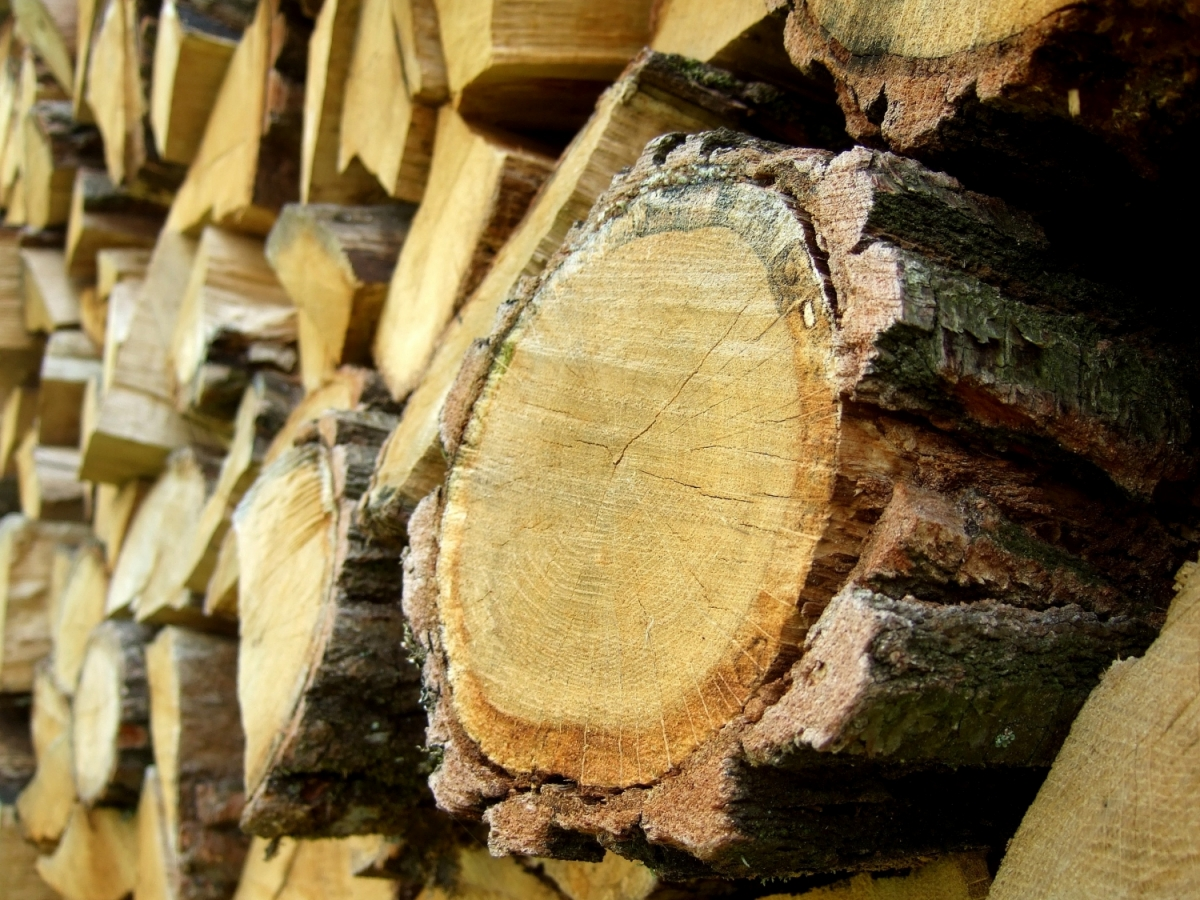 Oak wood in a cut.